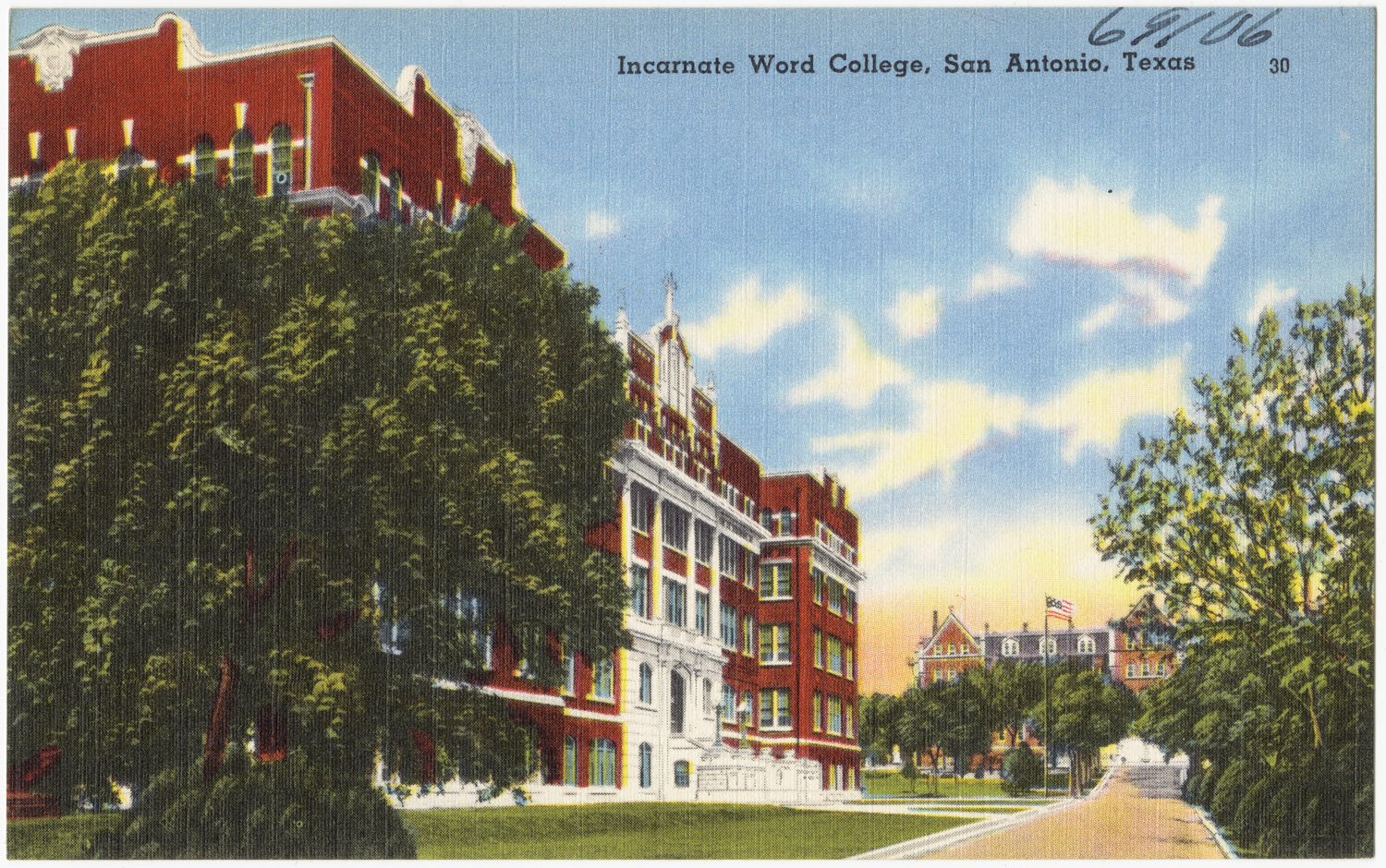 File name: 06_10_020495 Title: Incarnate Word College, San Antonio, Texas Created/Published: Pub. by Weiner News Co., San Antonio, Texas. "Tichnor Quality Views," Reg. U. S. Pat. Off. Made Only by Tichnor Bros., Inc., Boston, Mass. Date issued: 1930-1945 (approximate) Physical description: 1 print (postcard) : linen texture, color ; 3 1/2 x 5 1/2 in. Genre: Postcards Subjects: Universities & colleges Notes: Title from item. Collection: The Tichnor Brothers Collection Location: Boston Public Library, Print Department Rights: No known restrictions